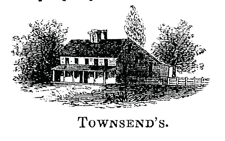 Drawing of the house of Samuel Townsend in Oyster Bay, New York, now the site of the Raynham Hall Museum.